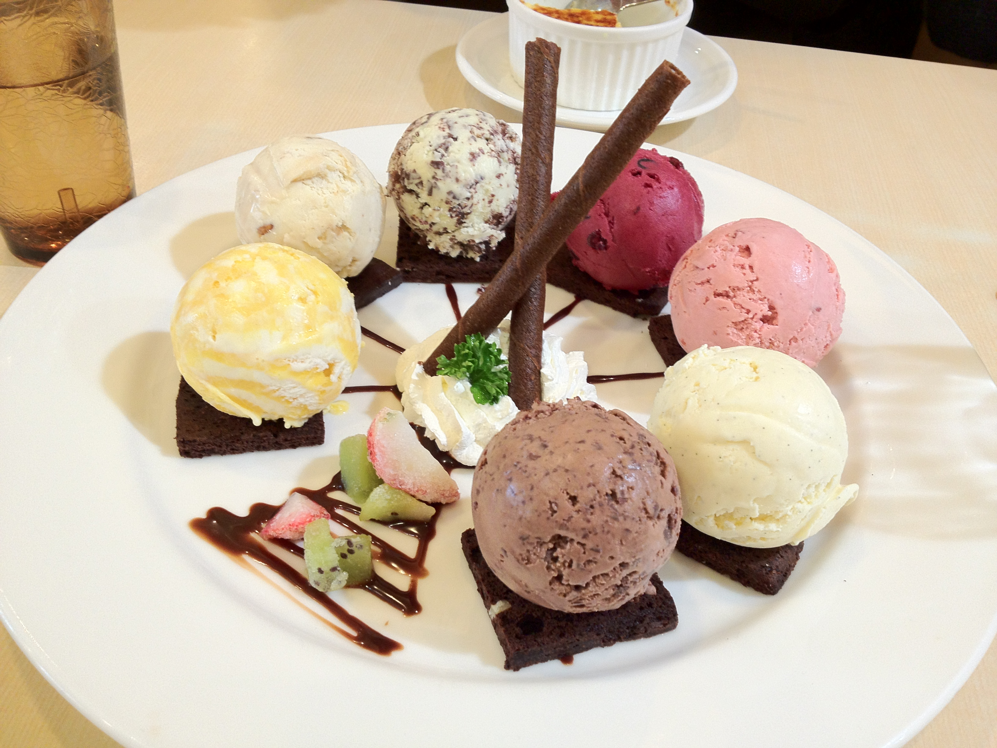 Mövenpick Ice Cream